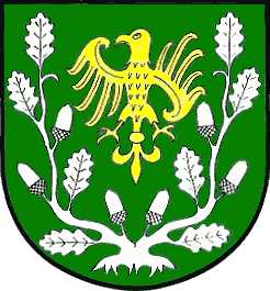 Coat of arms of the municipality Jagel in Schleswig-Holstein, Germany.